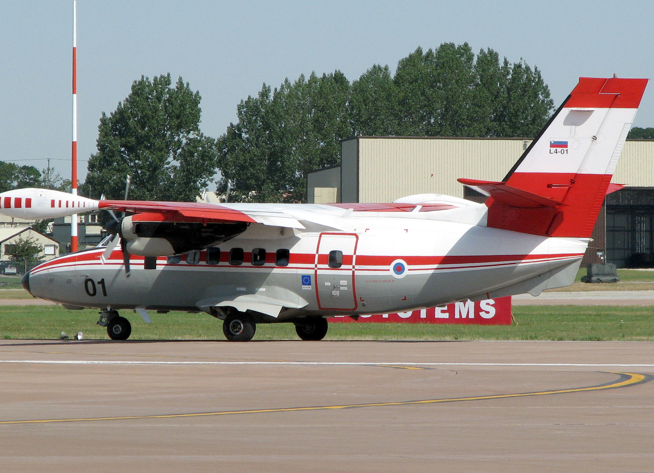 Let L-410UVP-E of the Slovenian Armed Forces (identifier L4-01) taxiing for take off at the Royal International Air Tattoo, Fairford, Gloucestershire, England. Photographed by Adrian Pingstone on July 17th 2006 and released to the public domain.